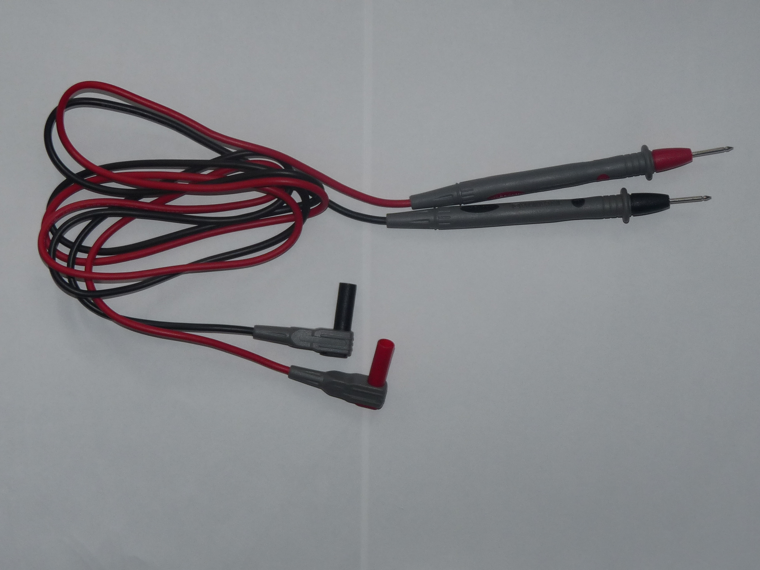 Mastech test leads